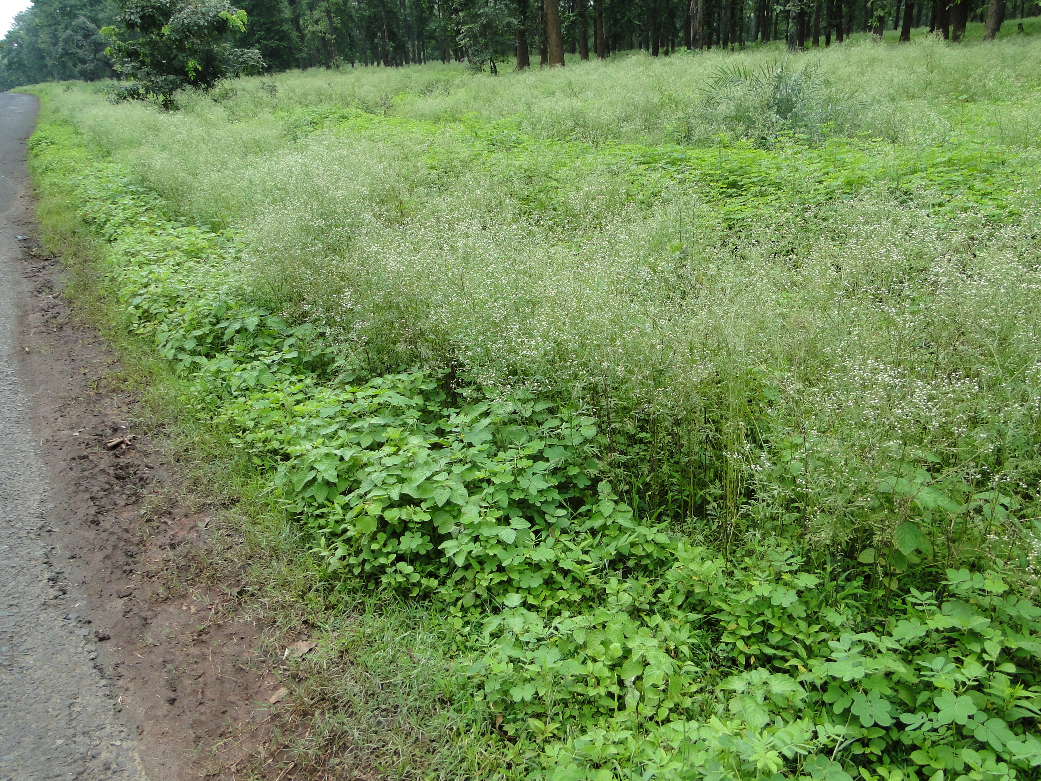 Alien Invasive Species Parthenium hysterophorus smothering native flora in Achanakmar Tiger Reserve, Bilaspur, Chhattisgarh, India.